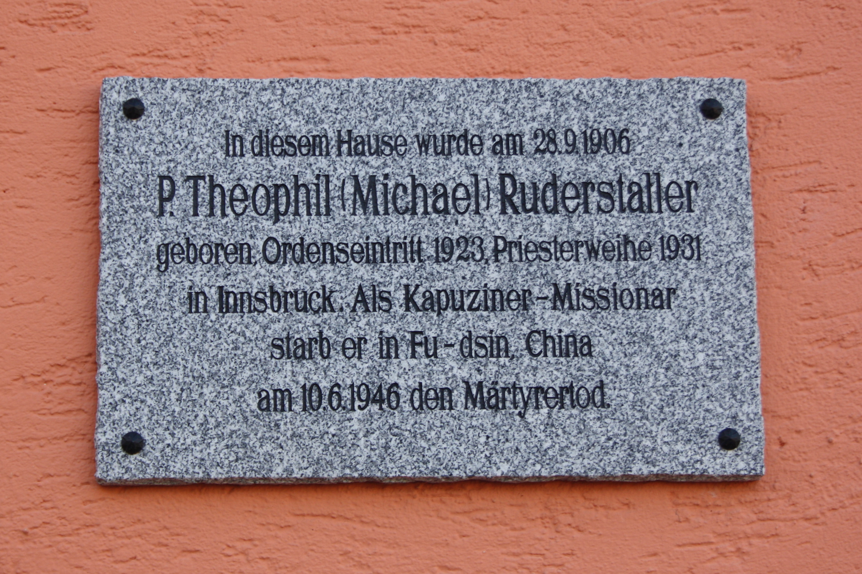 Plaque at the birthplace of Theophil Ruderstaller in Ostermiething.